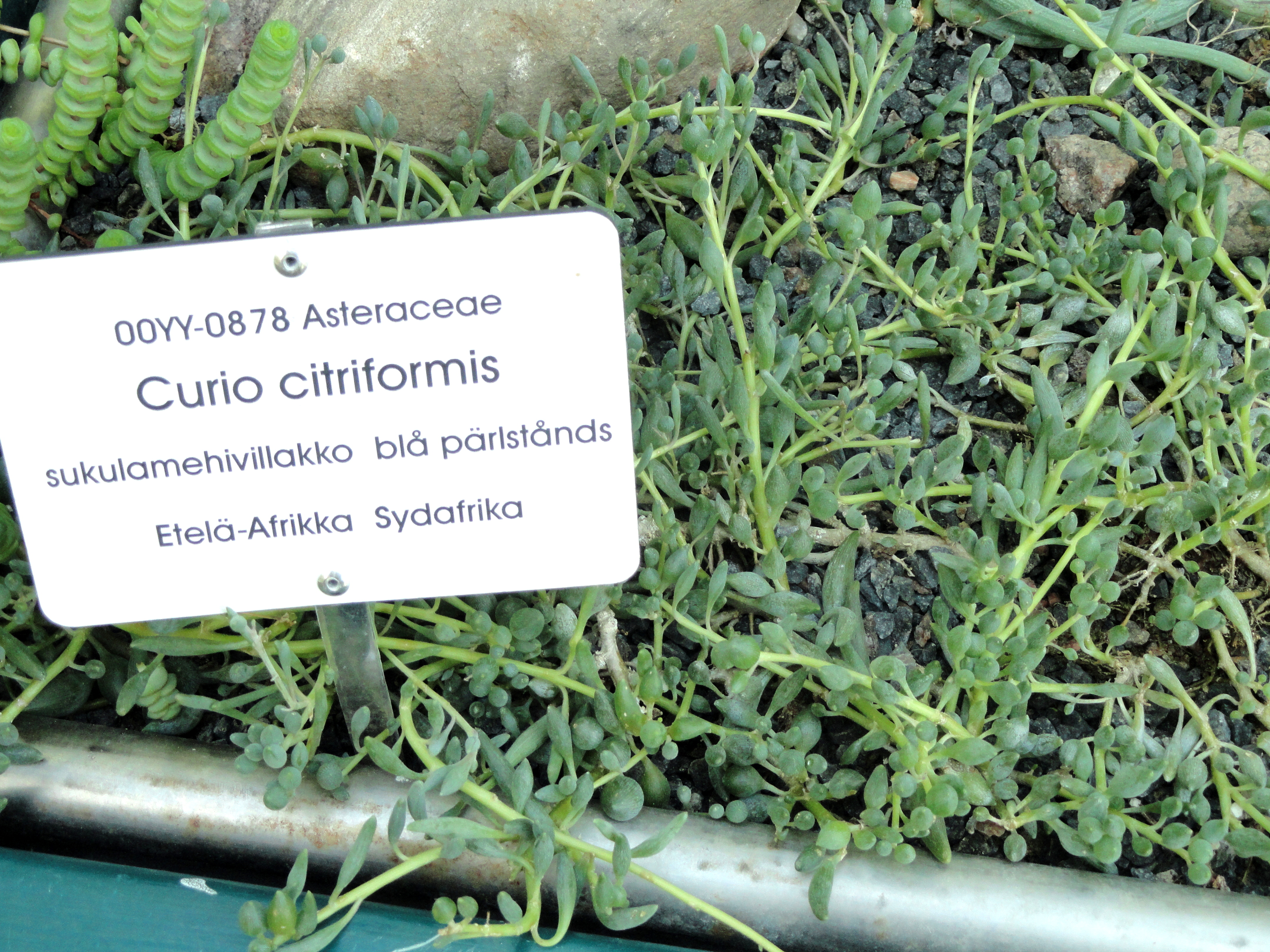 Botanical specimen. The University of Helsinki Botanical Garden at Kaisaniemi